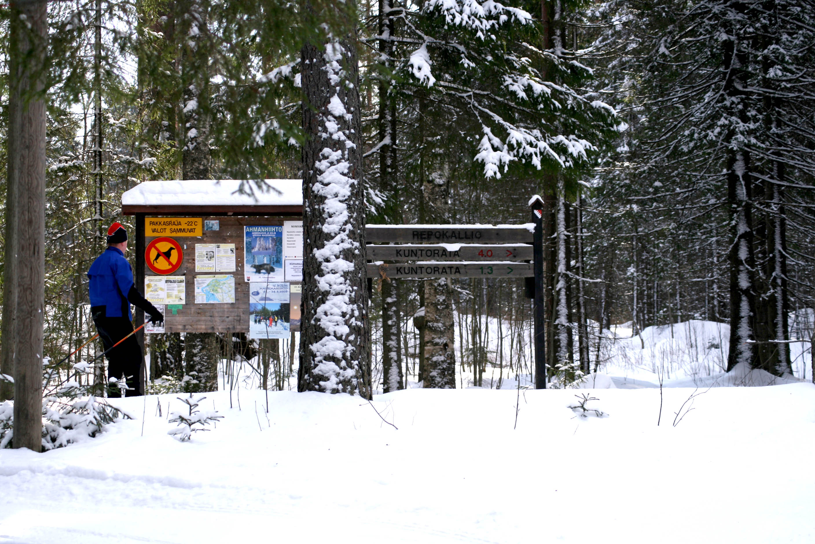 Signs at Repokallio park in Joensuu, Finland